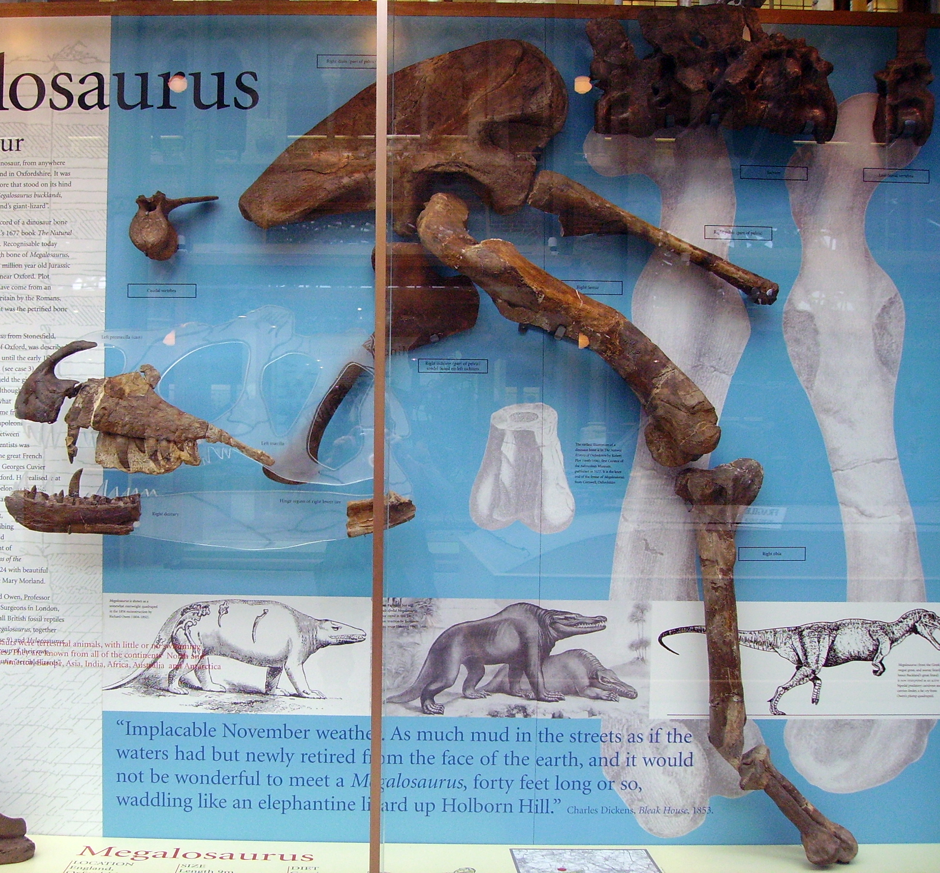 Some of the known material of M. bucklandii on display at OU Museum of Natural History